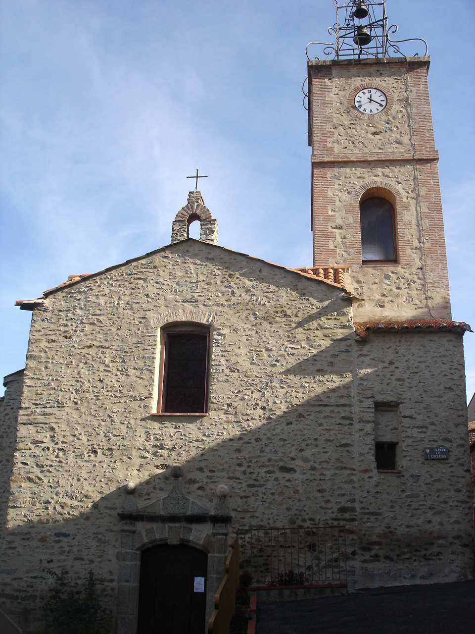 Saint Martin Church of Joch, Pyrénées-Orientales, France